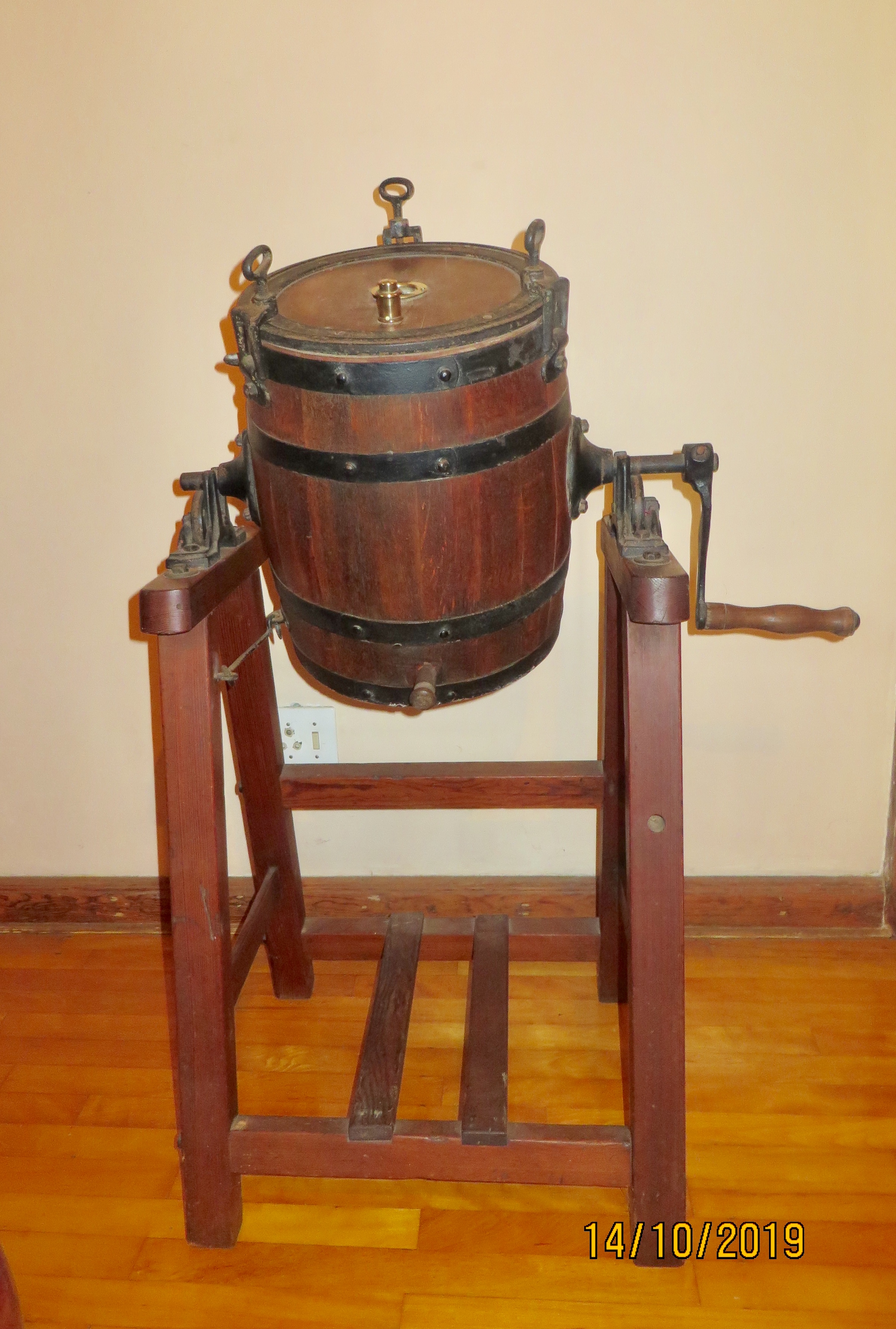 Oak barrel, pine stand, steel parts on barrel, and removable wheels to facilitate rotation of barrel. Barrel has detachable cover, rubber seals and steel securing clamps; cover incorporates a copper pressure release valve, and a glass peephole with a copper retainer. A removable wooden stopper (plug) seals the drain hole during operation, and is inserted into a hole located on the front of the stand for safekeeping while the buttermilk (the natural byproduct after butter-making) is drained from the barrel into a separate container. A shelf at the base of the stand supports the container - usually a bucket - for the buttermilk, which may subsequently be consumed as a nutritious drink. This churn was used on a family farm in Noordhoek, south of Cape Town, South Africa, in the early 1900's. Country of origin: unknown, probably England.